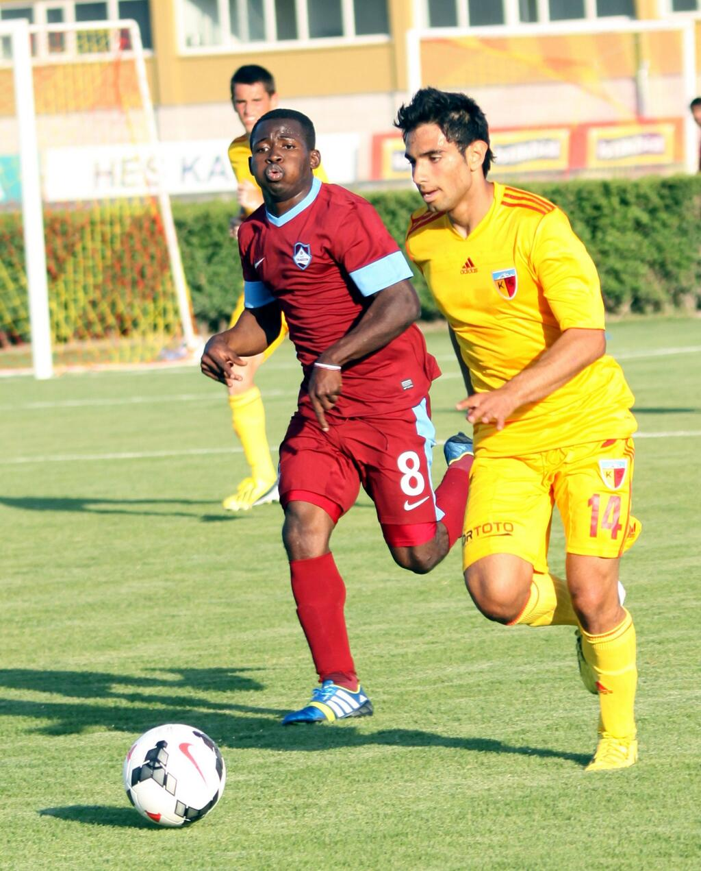 Yener Arıca ve Jebrin hazırlık maçından